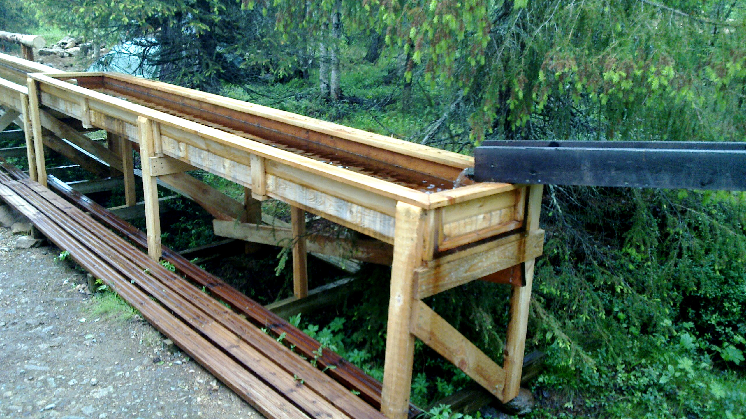 Tankavaara gold museum northern Finland